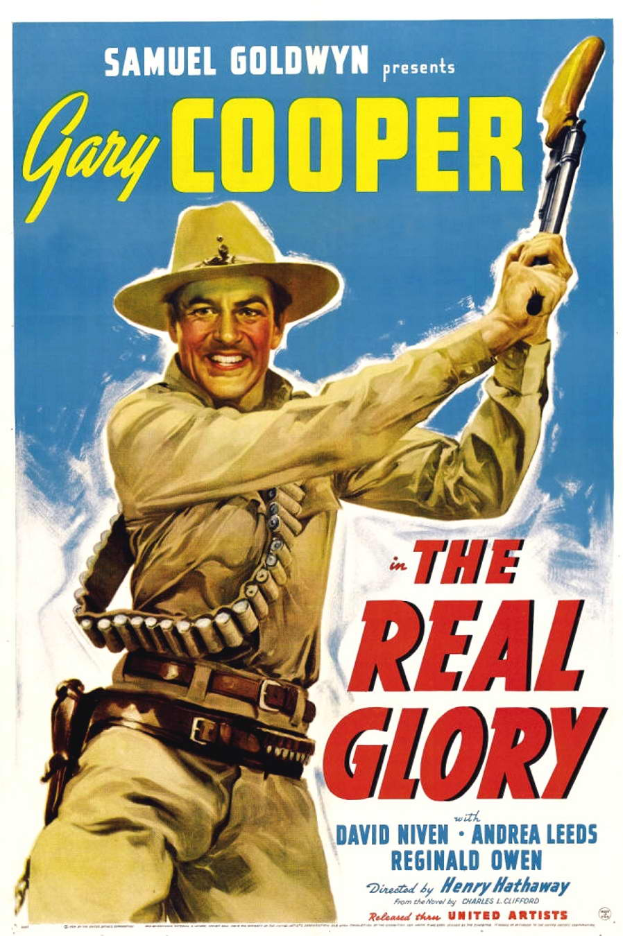 Poster - The Real Glory - directed by Henry Hathaway (1939) with Gary Cooper and David Niven